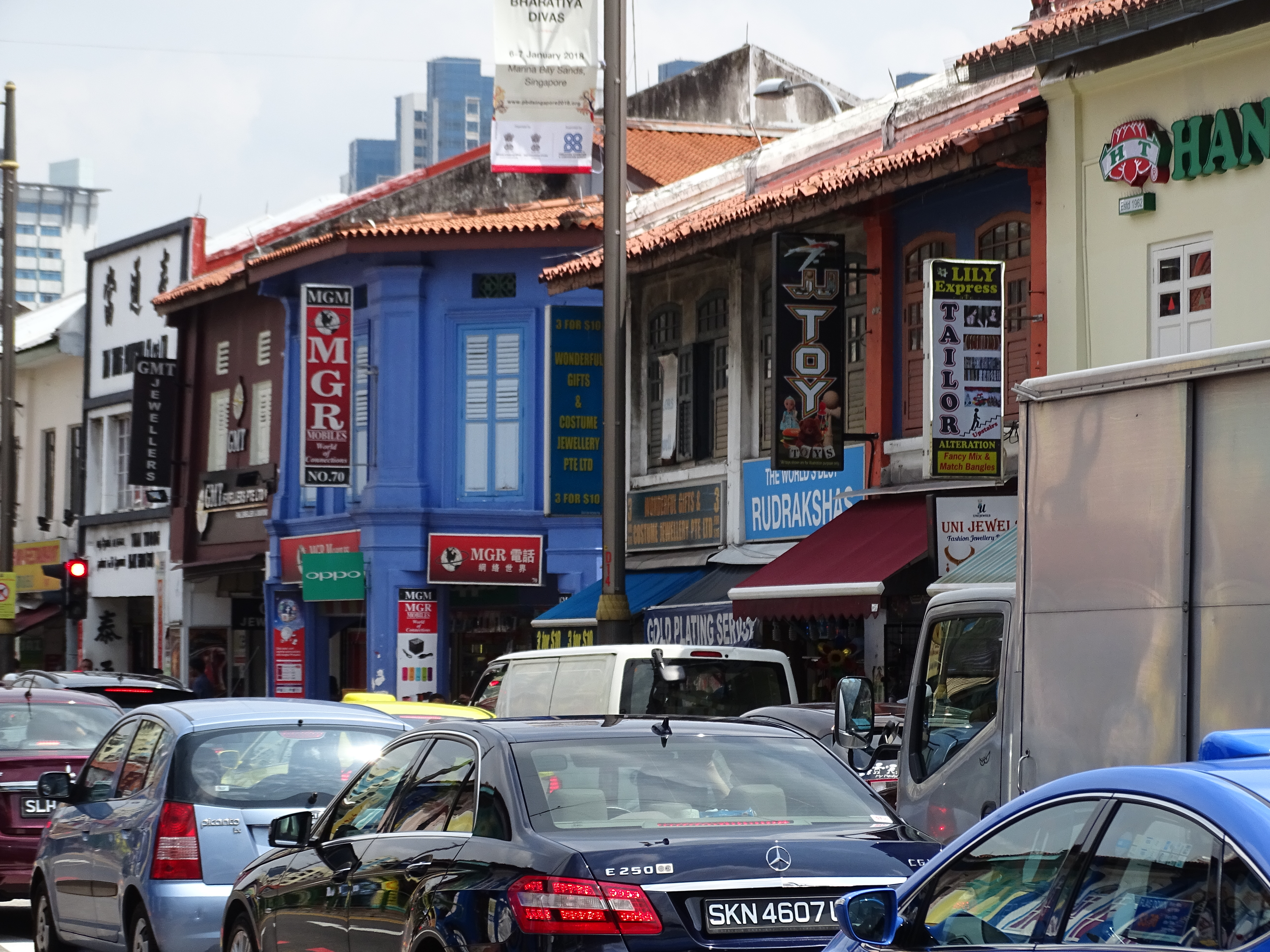 Little India, Singapore, Serangoon Road